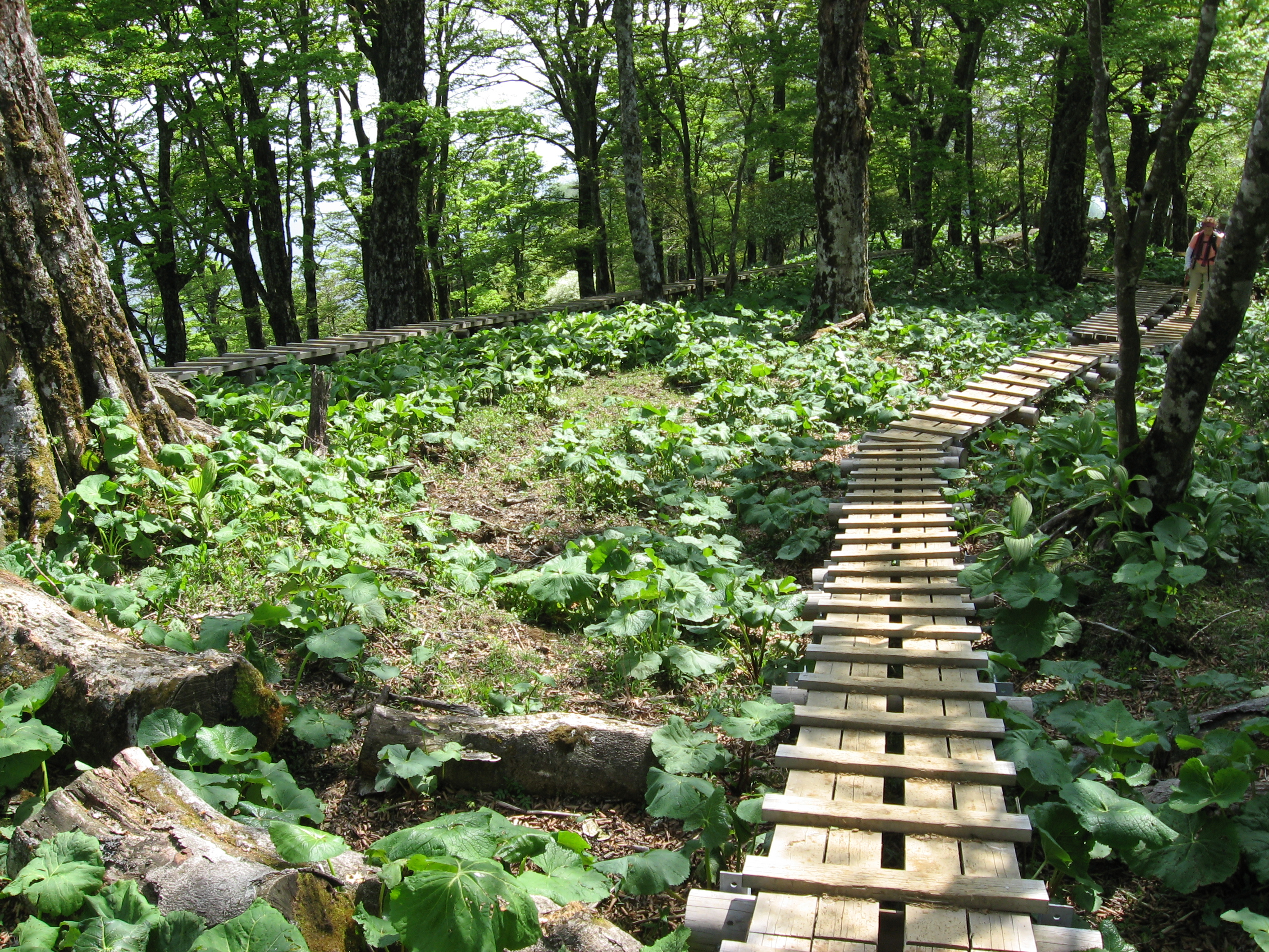 The forest in Tanzawa Mountains, Kanagawa Pref., Japan.